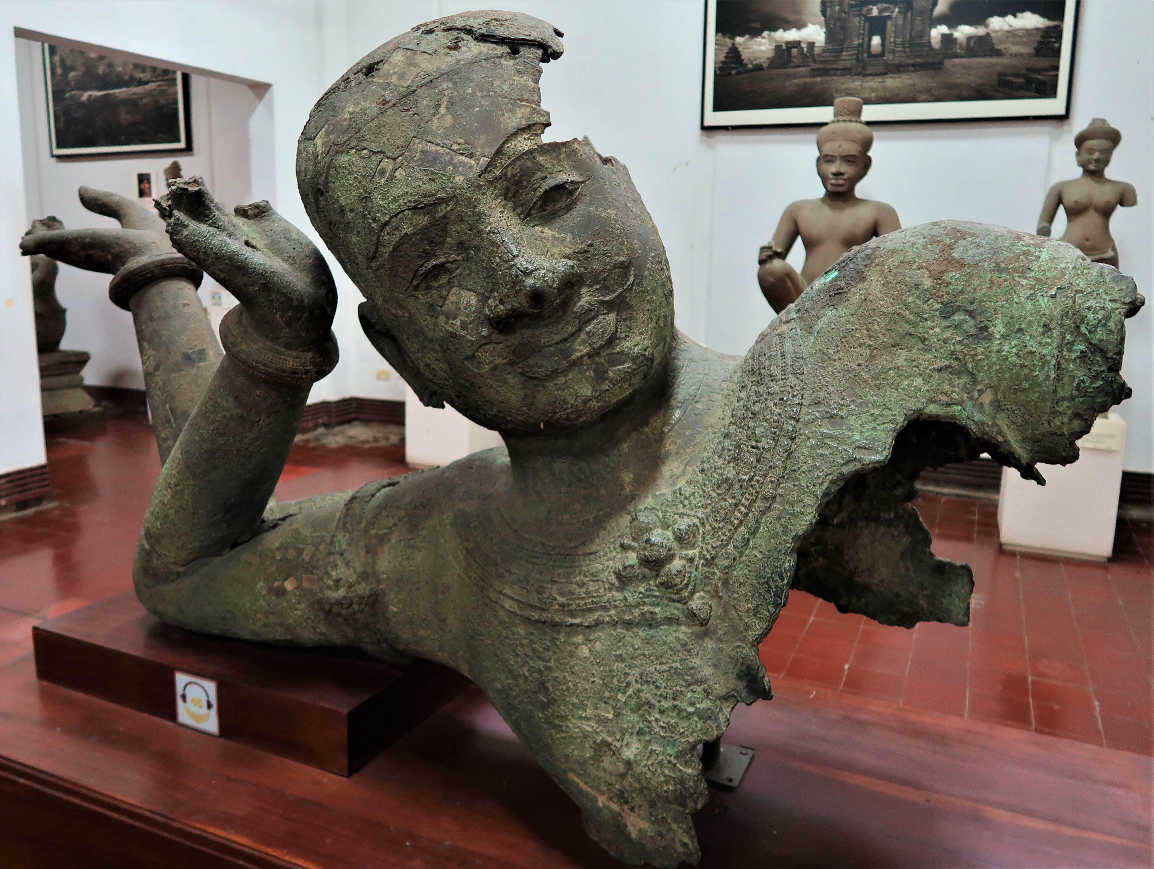 Reclining Vishnu from Prasat Western Mebon, Angkor. Made of Bronze, statue is from 11th century and currently on display at the National Museum of Cambodia.